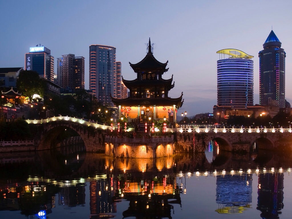 Guiyang the capital of Guizhou in China's northwest. Home to 46 of the 56 minority peoples of China